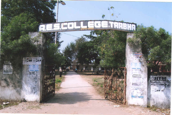 Entrance to AES College Tarbha